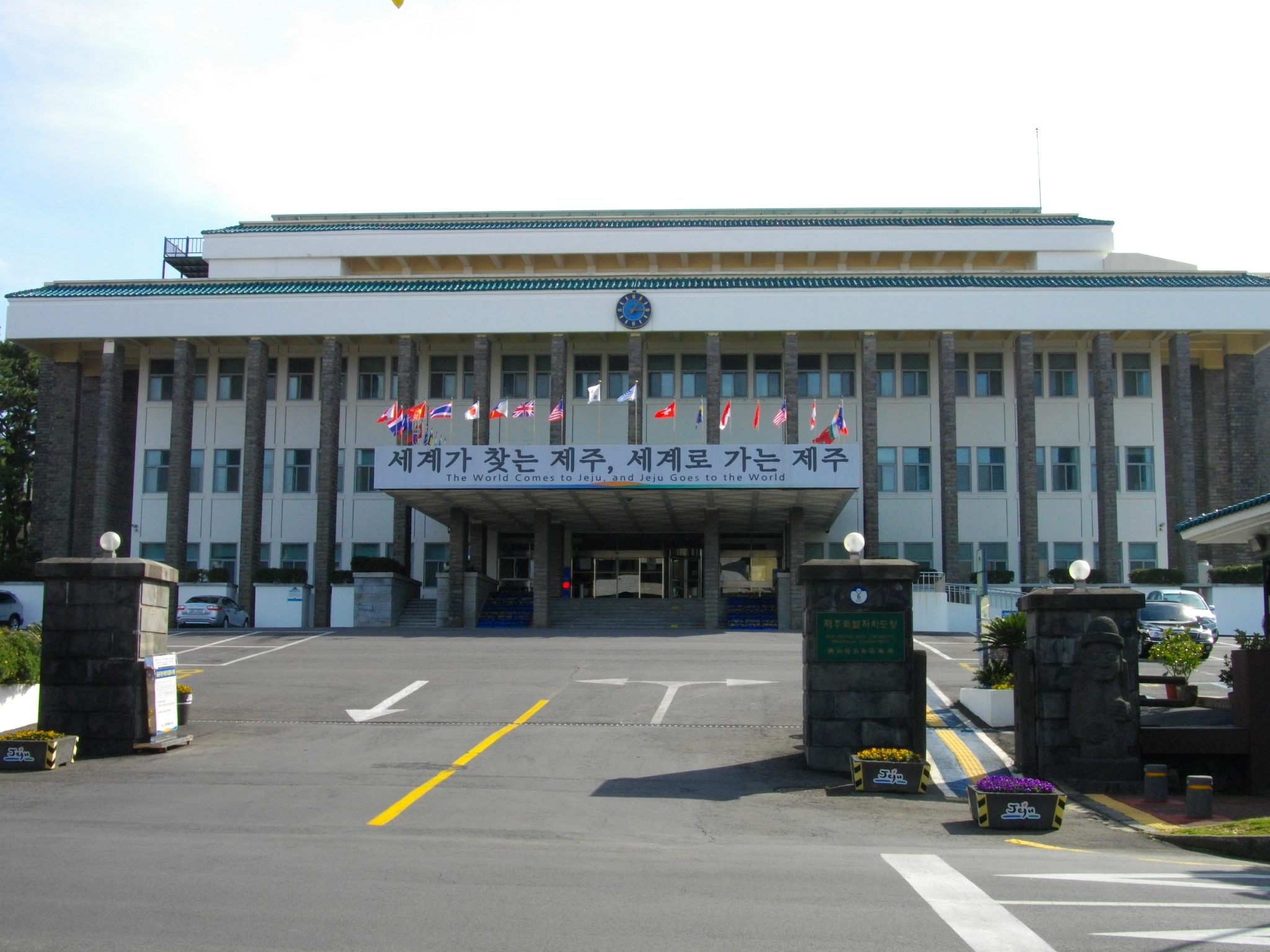 Jeju Special Self-Governing Provincial Office